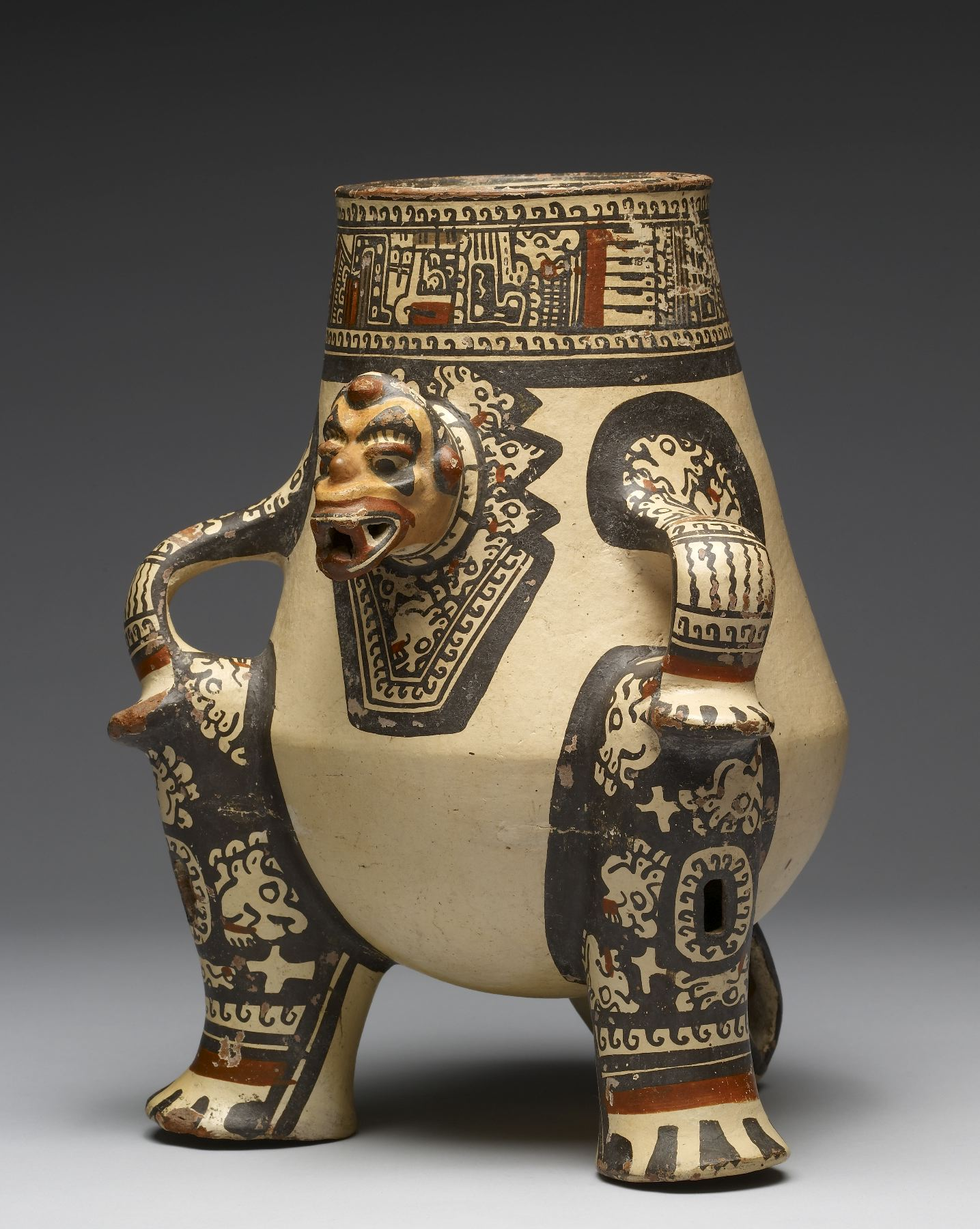 This Pataky ceramic type portrays a seated shaman transformed into his/her jaguar spirit companion form.